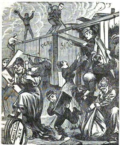 The mob sacking the freight cars of the Pennsylvania Railroad, Pittsburgh, PA July 22 1877